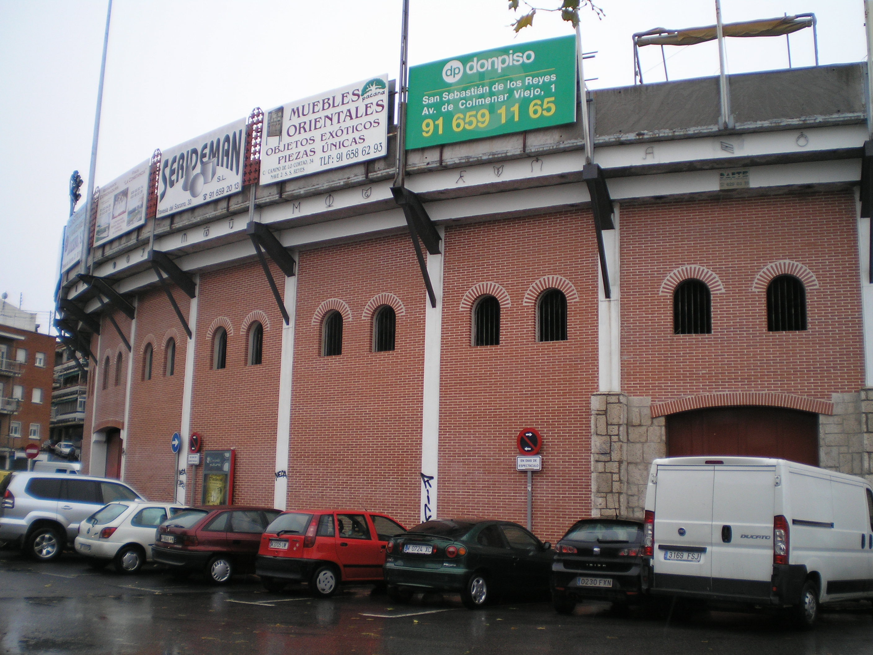 Bullring "La tercera" in San Sebastián de los Reyes, Madrid.